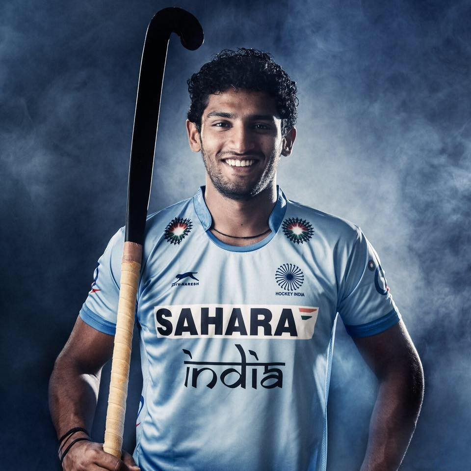 Photo shoot carried by Adarsha R on SK in 2015